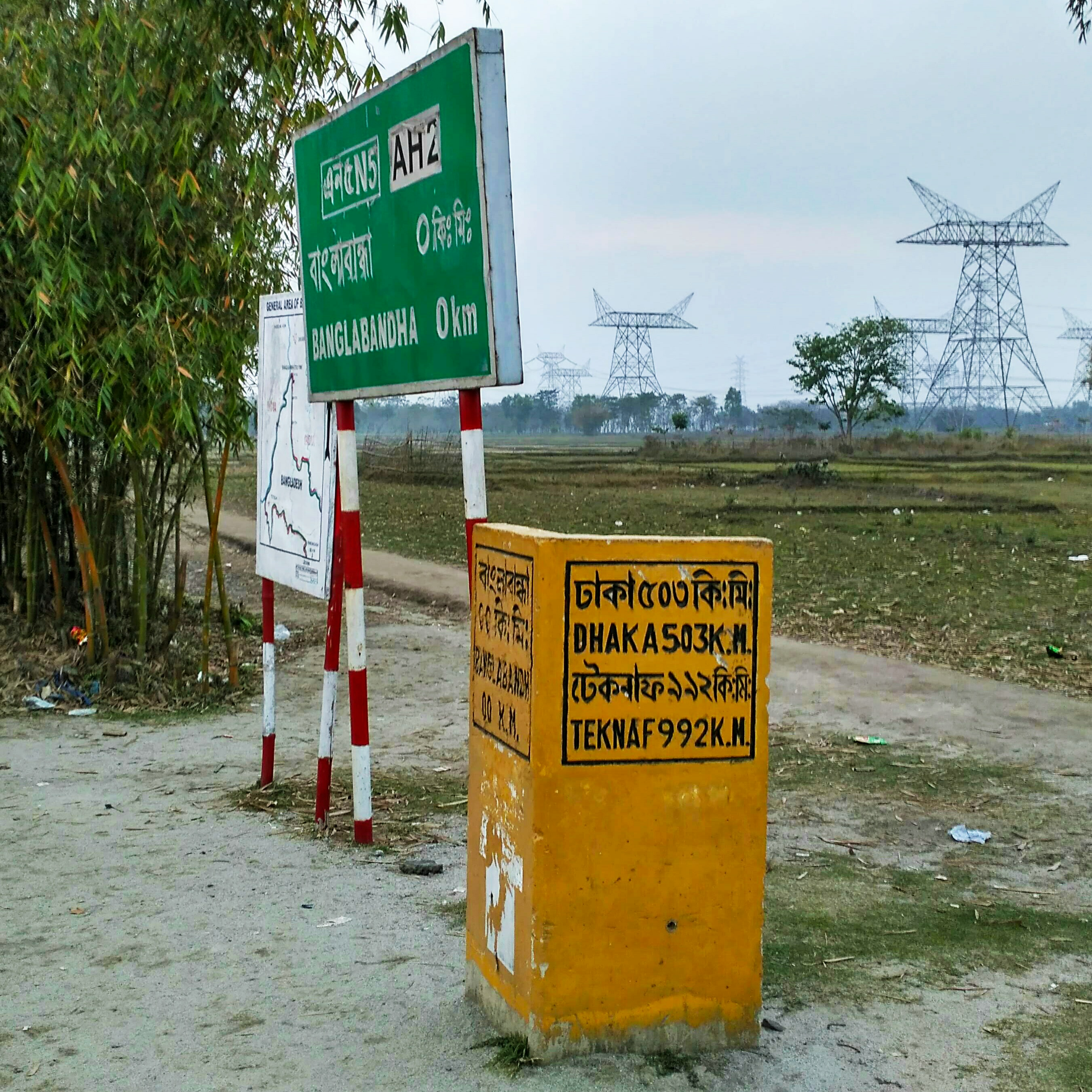 A Kilometer post in Banglabandha zero point showing the distance of Dhaka and Technaf.